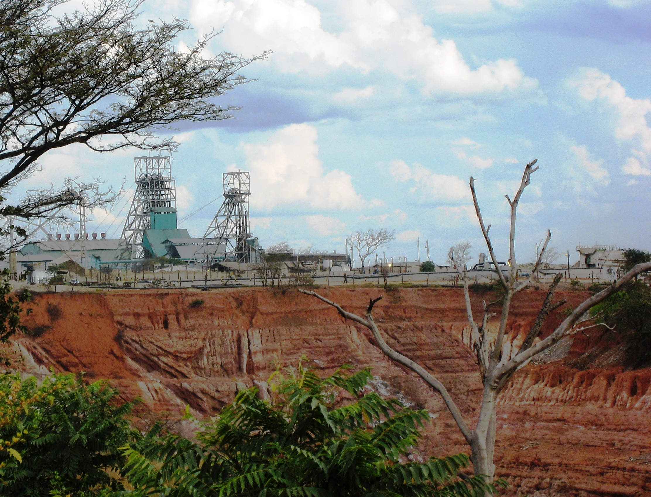 Nkana mine Open Pit and Head Gear